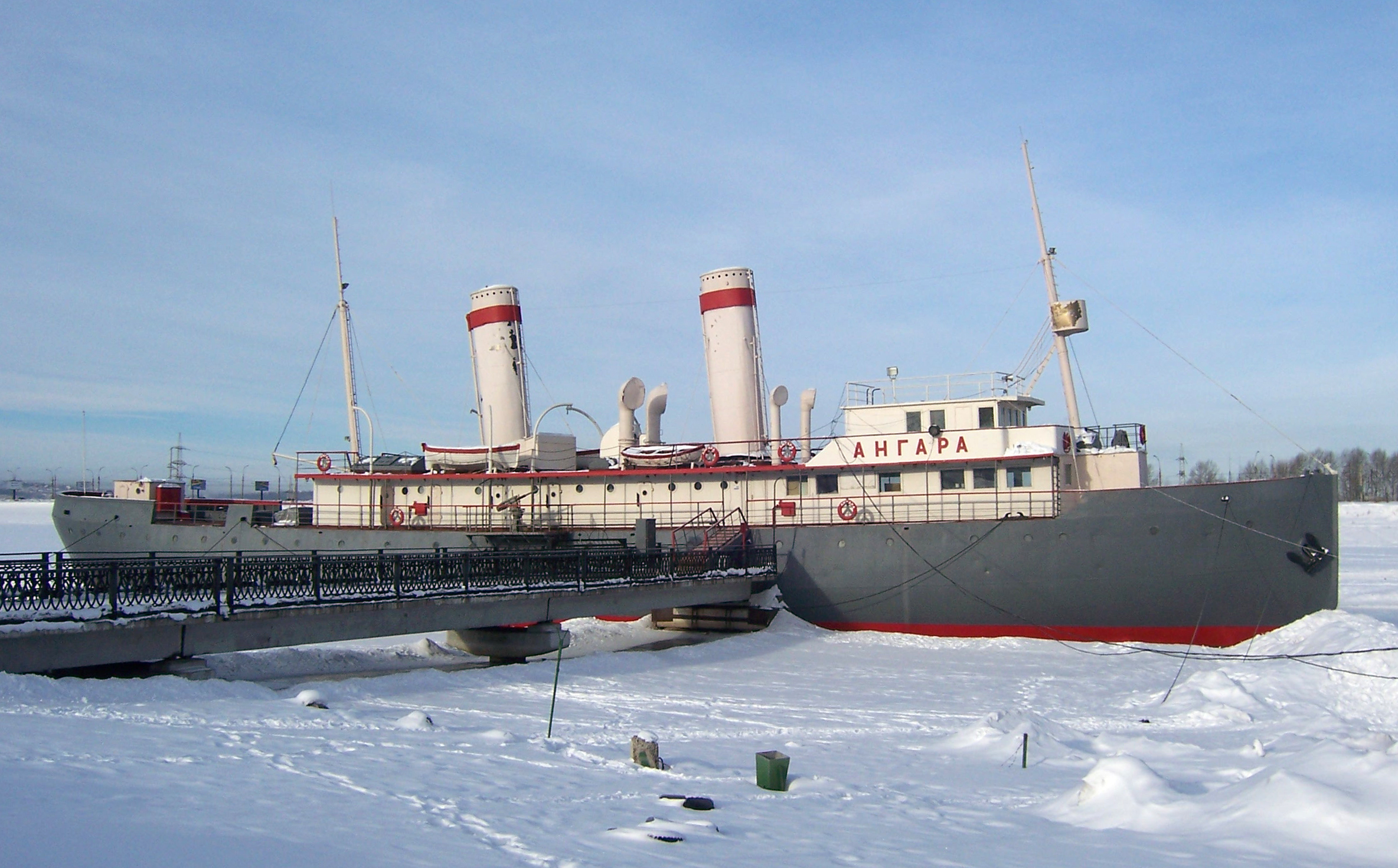 Old Ferry Angara in Irkutsk, today a museum